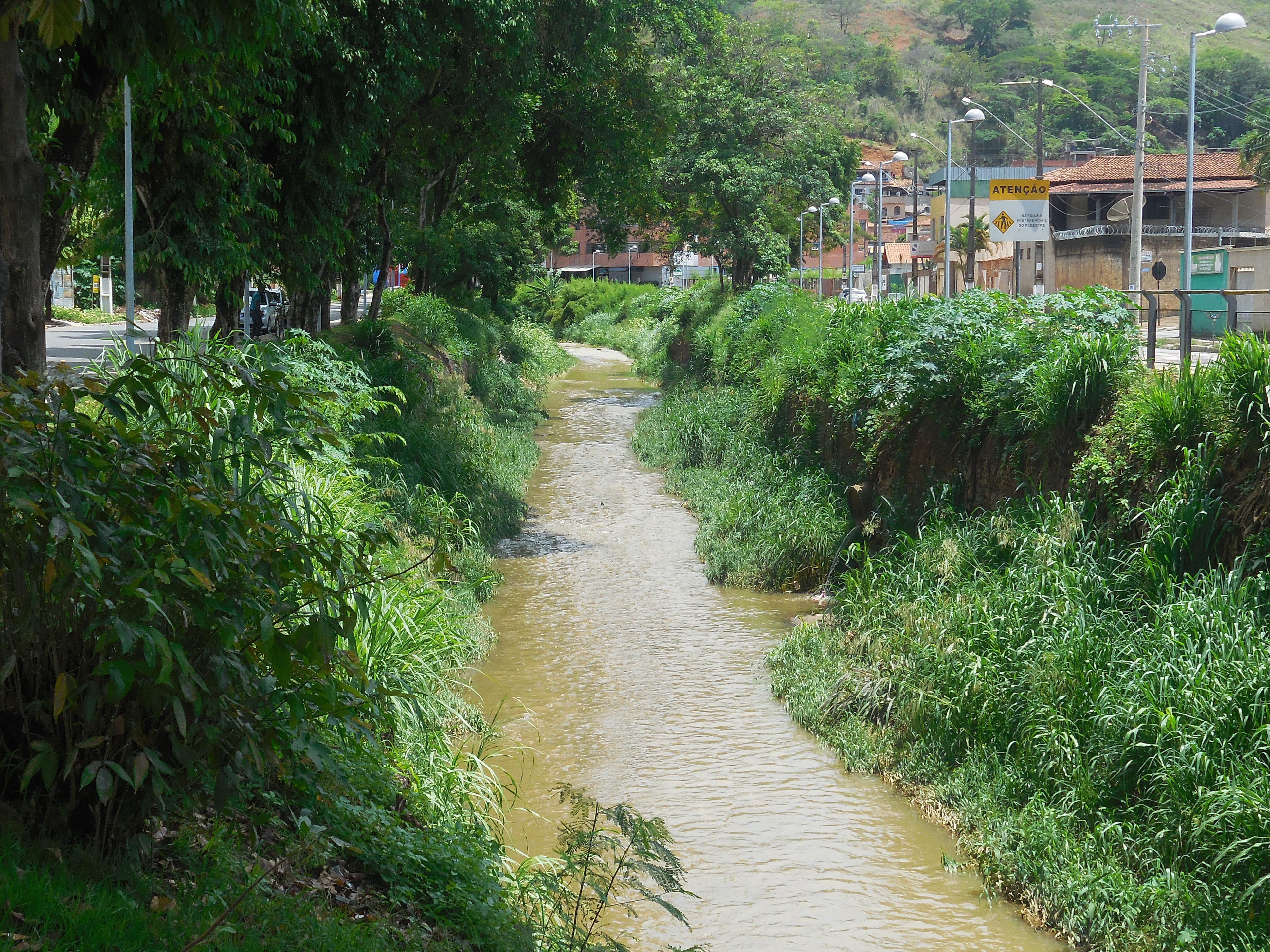 Caladão Stream between the Santa Helena and Santa Terezinha neighborhoods, in Coronel Fabriciano, Minas Gerais, Brazil.